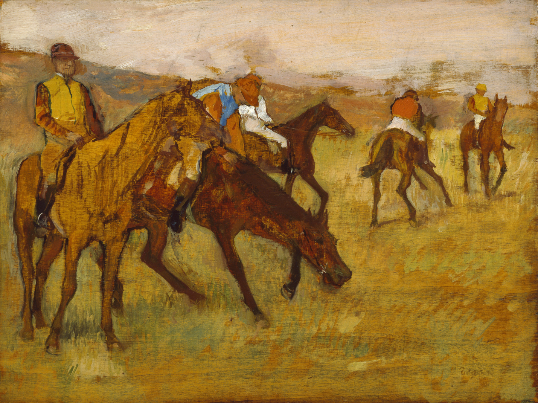 Throughout the latter part of his career, Degas was obsessed with the restless beauty of the thoroughbred racehorse. Horse racing, which drew together throngs of people from many levels of society, was a singularly appropriate subject for representing modern life. Degas typically painted several versions of a composition, making slight variations in each. Here, riders and horses are shown in quiet and agitated movement. By the 1880s, Degas was making good use of recently published, stop-action photographs, which captured movement too fleeting to be perceived by the naked eye and which increased the artist's understanding of the horse in motion.